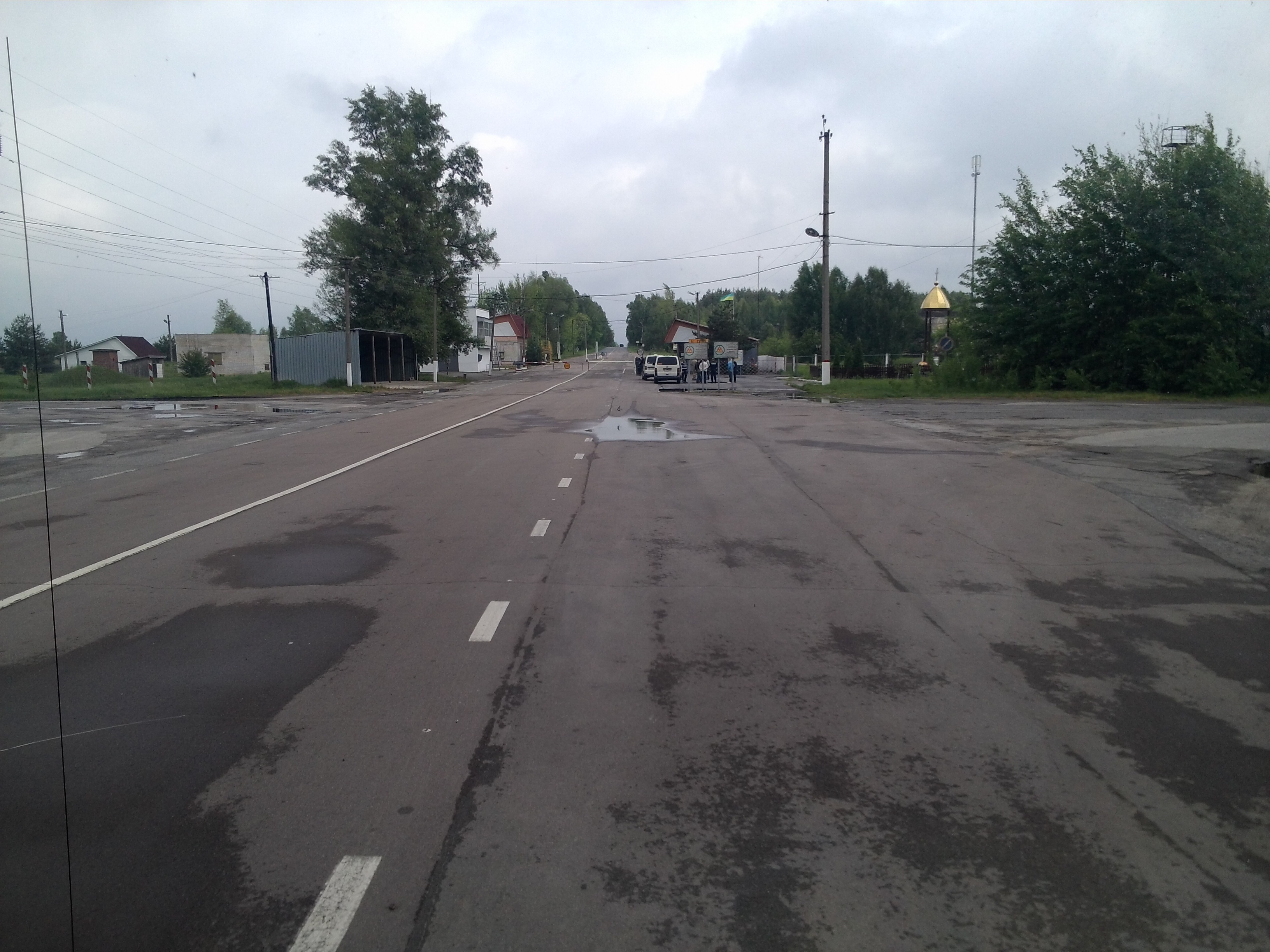 This photo was taken during 2013 Ukrainian Wikiexpedition to the Chernobyl Exclusion Zone set up by Wikimedia Ukraine and funded by The Wikimedia Foundation. You can see all photographs in category Category:Wikiexpedition to Chernobyl Exclusion Zone 2013.